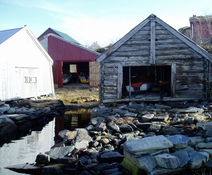 A boathouse (Norwegian: "Naust") in Western Norway